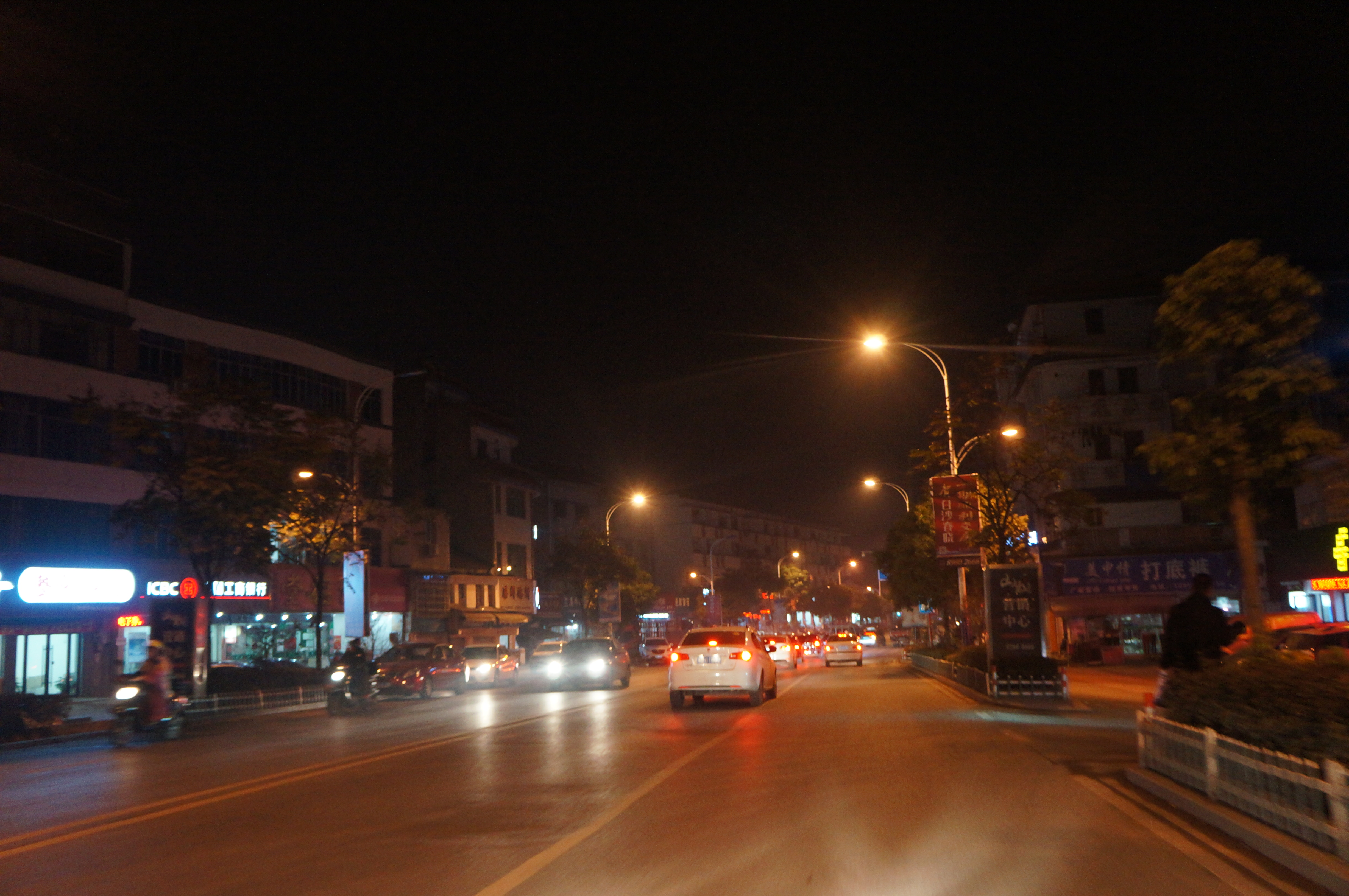 201612 Old Downtown of Bailongqiao